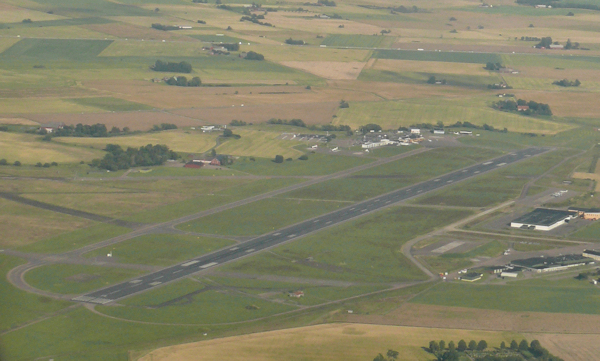 Overview of Ängelholm airport in Sweden.